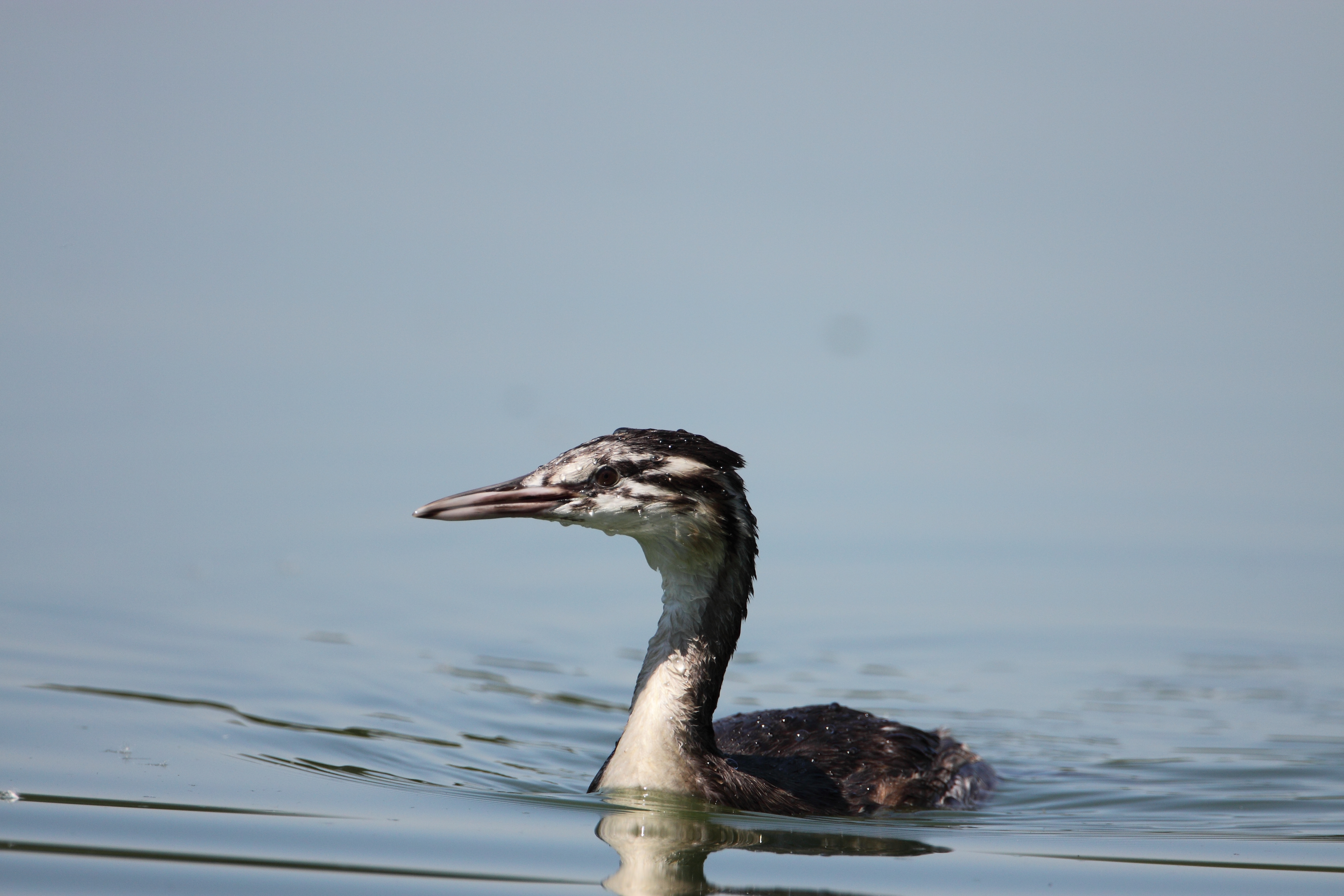 Great Crested Grebe ·